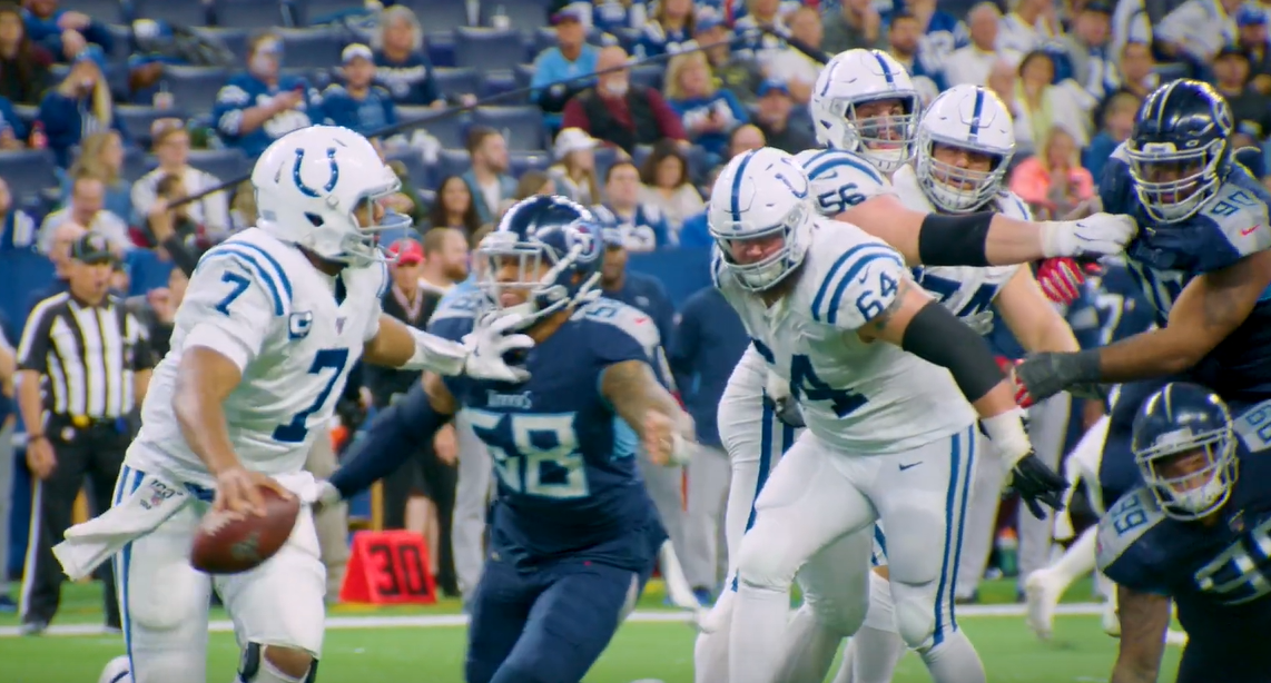 Jacoby Brissett 2019. Image from video Game-Changing INTs vs. Colts | Beneath the Surface, ~ 01:07.